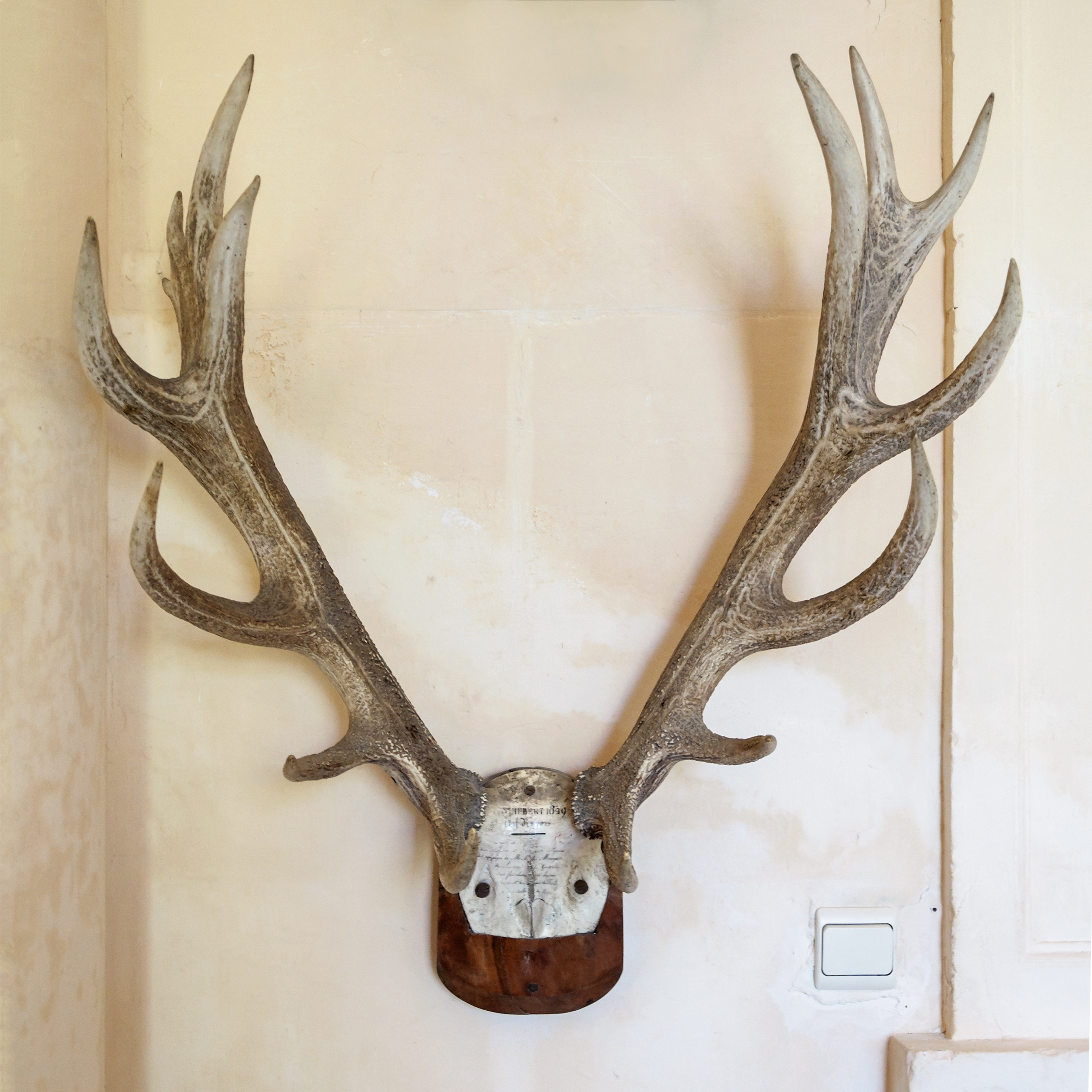 Trophy of a deer hunted on St Hubert's day 1829 - Château de Tanlay, Yonne department, Burgundy, France.